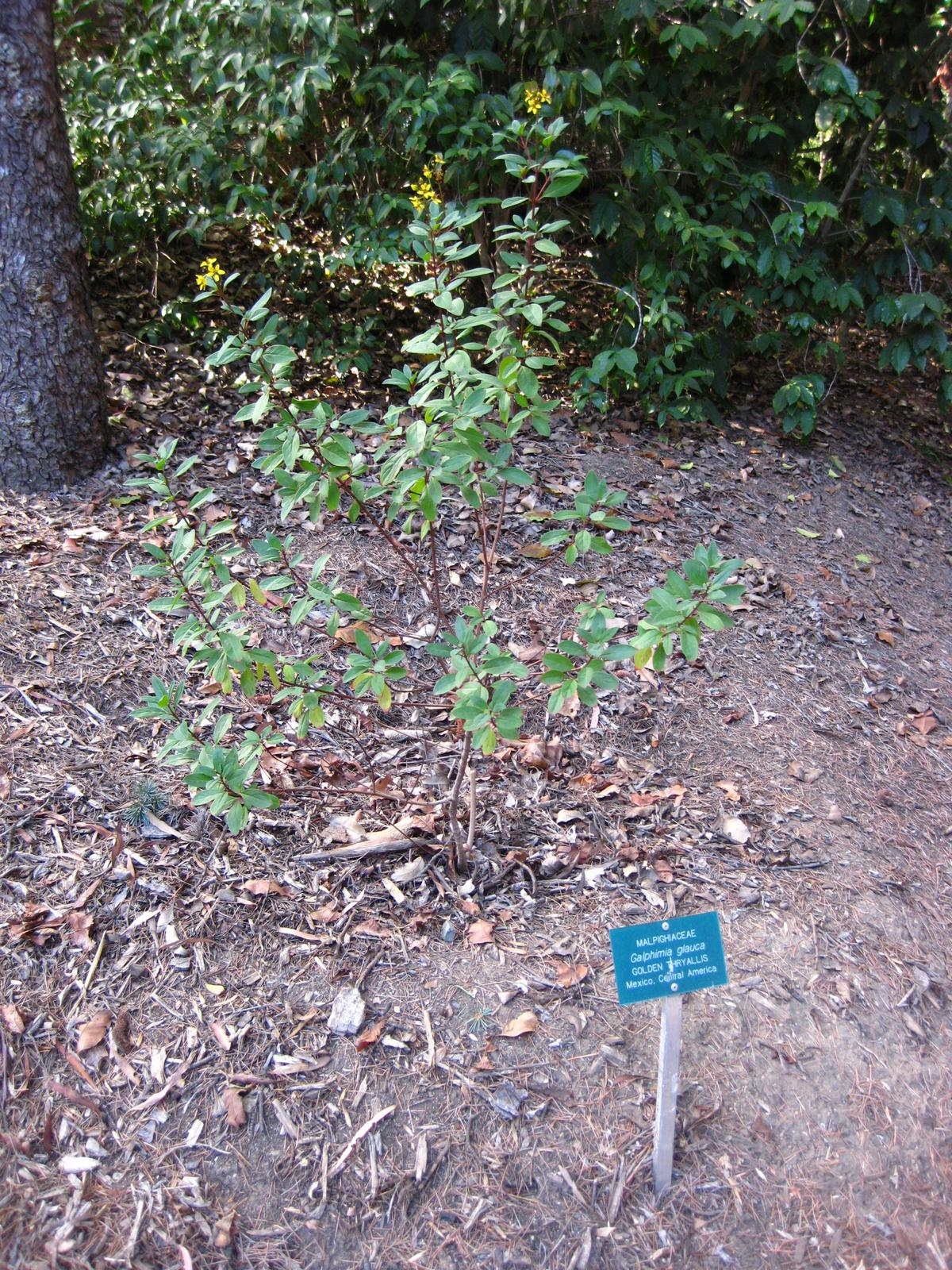 Photographed Mildred E. Mathias Botanical Garden at UCLA (Los Angeles, California) in November